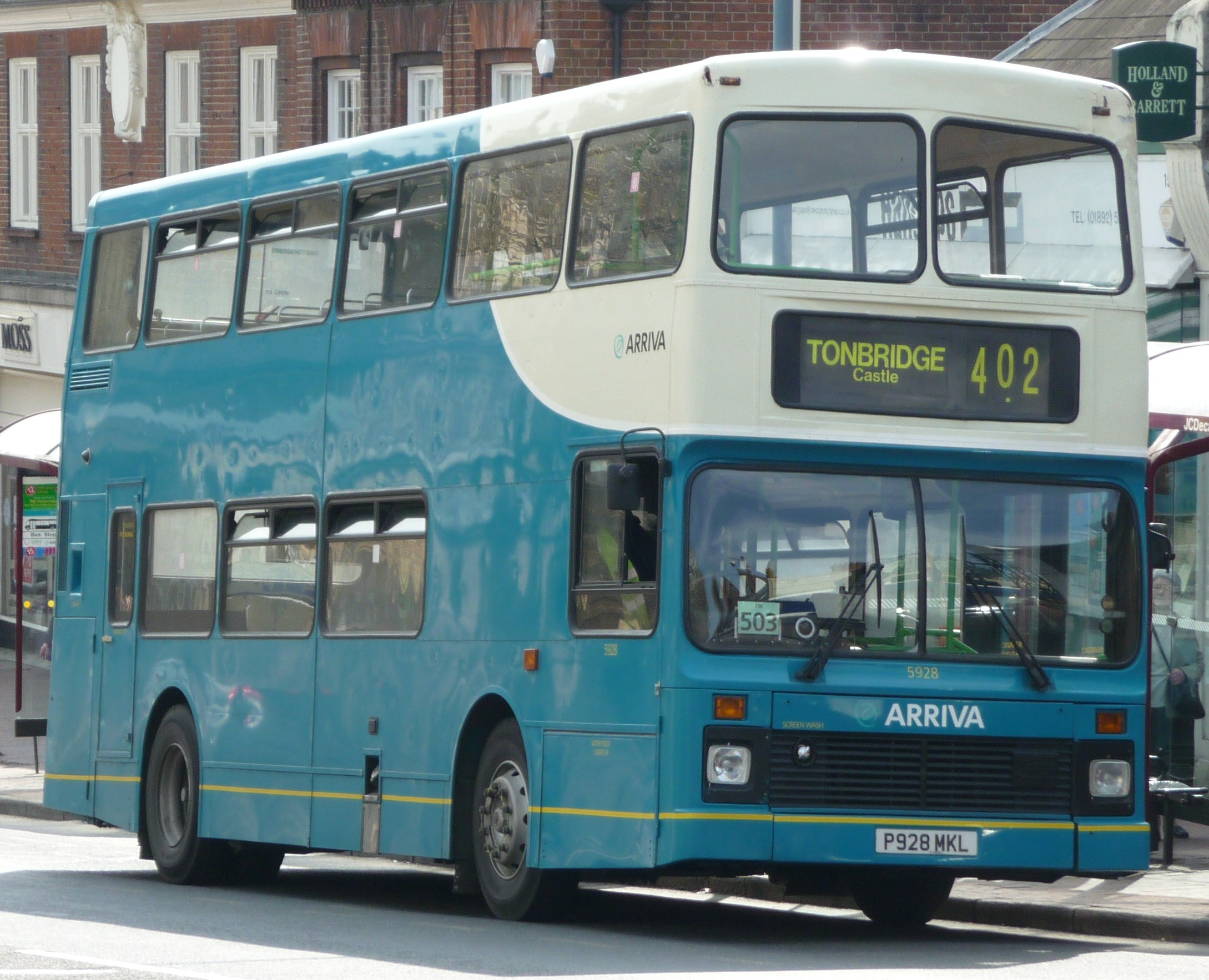 Arriva Kent & Sussex 5928 (P928 MKL), a Volvo Olympian/Northern Counties Palatine, in Mount Plesant Road, Tunbridge Wells, on route 402.